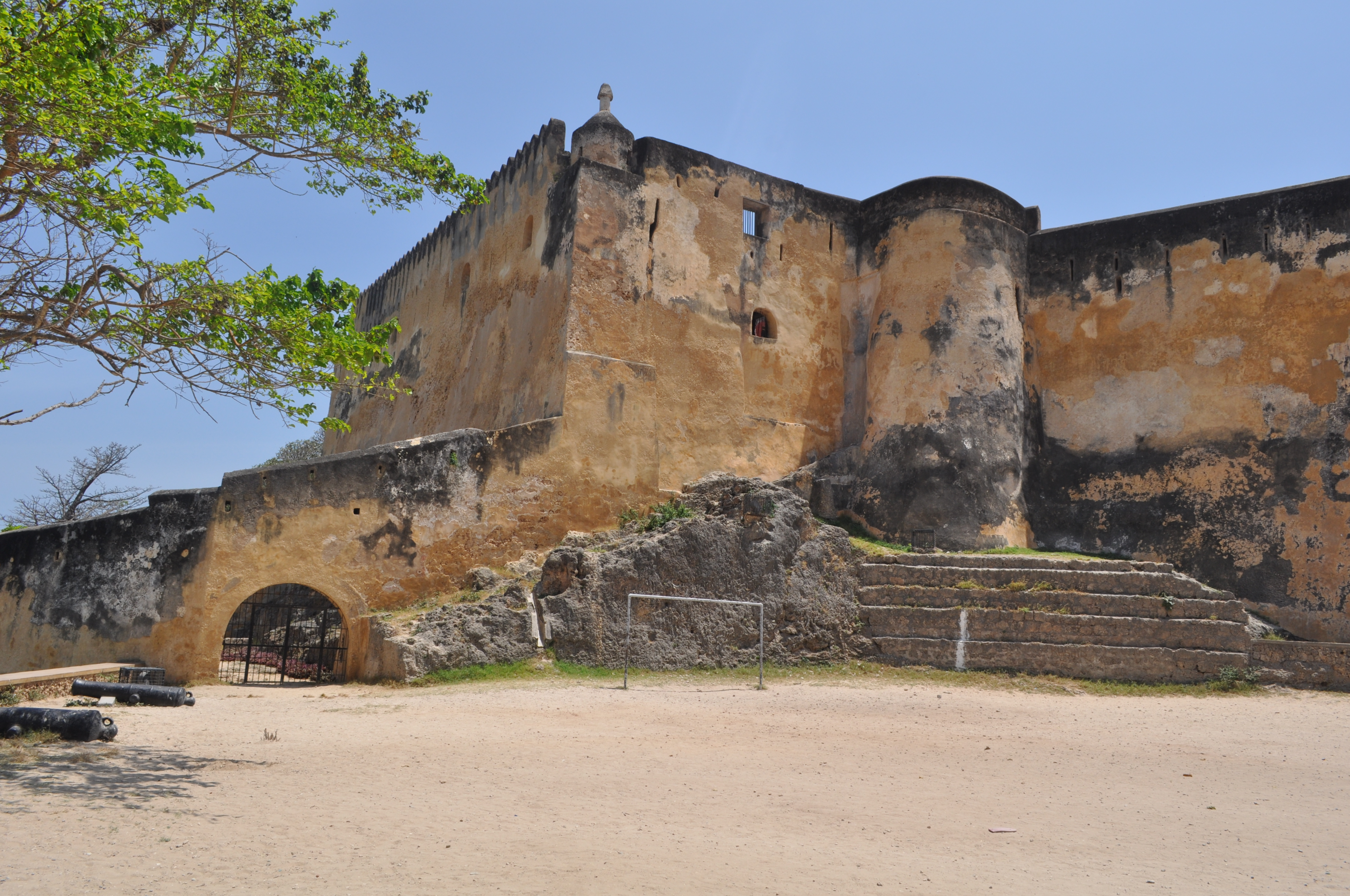 Pictures from Mombasa Fort built along the costal line of Kenya in Mombasa